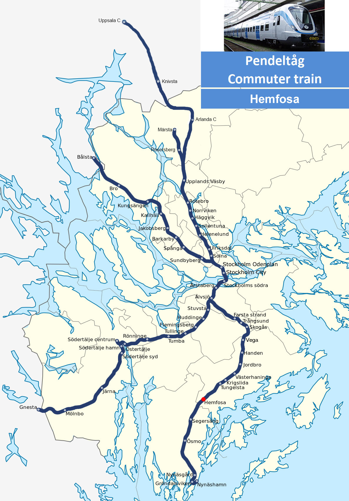 Hemfosa station map